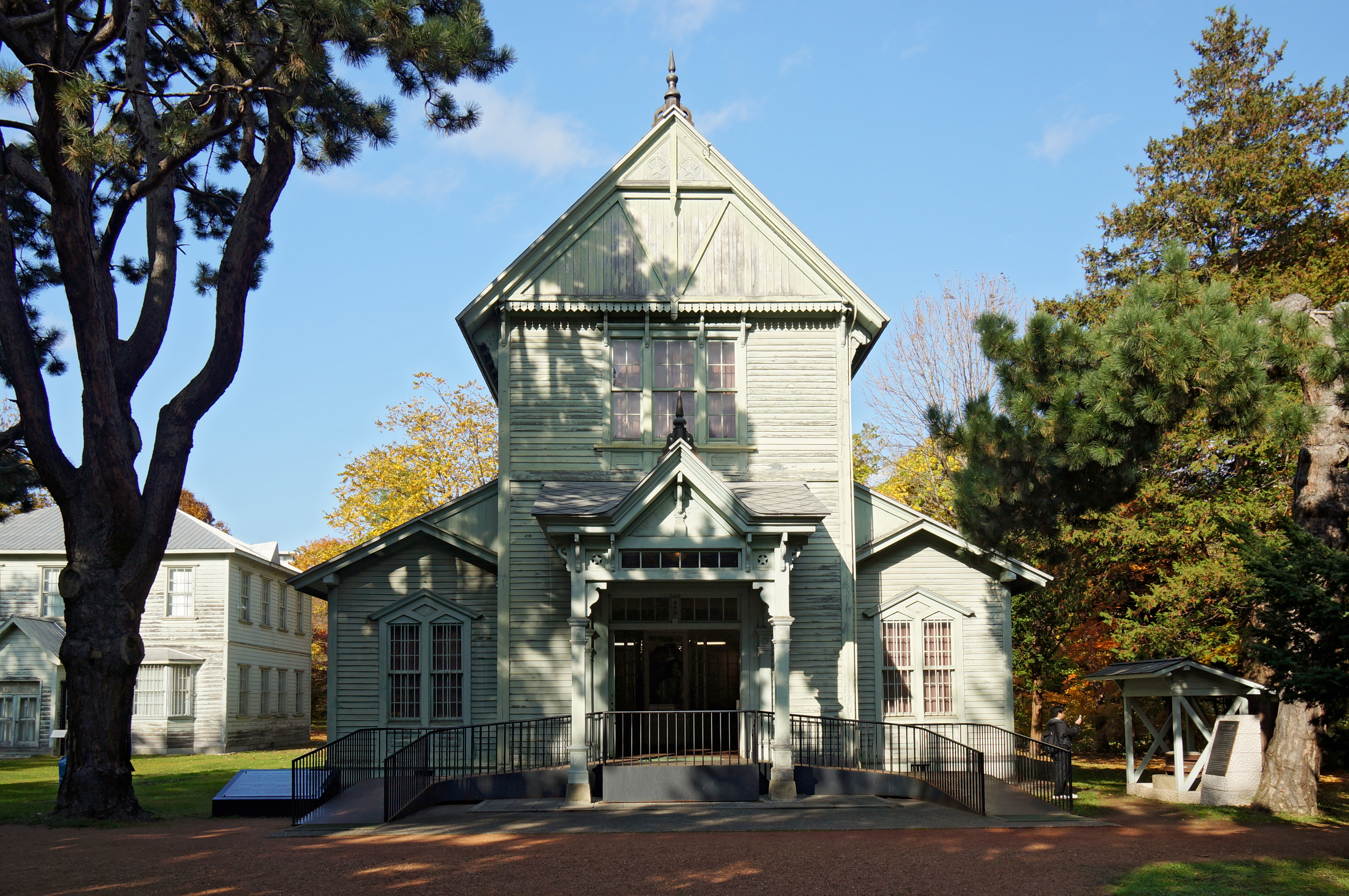 At Hokkaido University Botanical Gardens in Sapporo, Hokkaido prefecture, Japan.